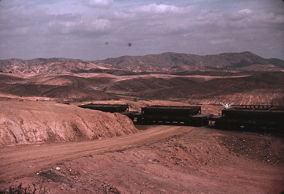 Title: A train bringing copper ore out of the mine, Ducktown, Tenn. Fumes from smelting copper for sulfuric acid have destroyed all vegetation and eroded the land